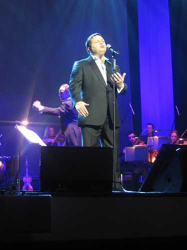 Paul Potts at the Pavilion Theatre in Rhyl, UK